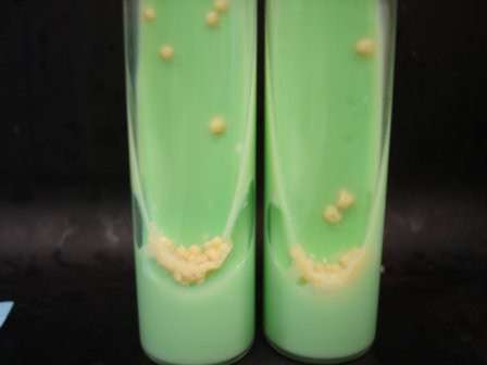 Culture on Lowenstein-Jensen medium revealed typical dry, heaped-up yellow to buff-colored colonies of Mycobacterium tuberculosis.